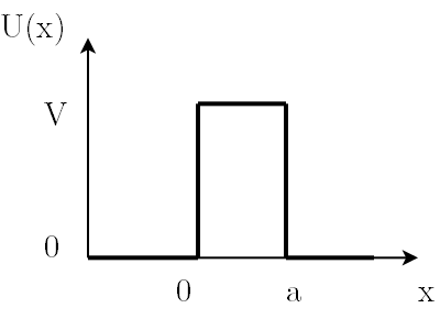 Square 1D potential